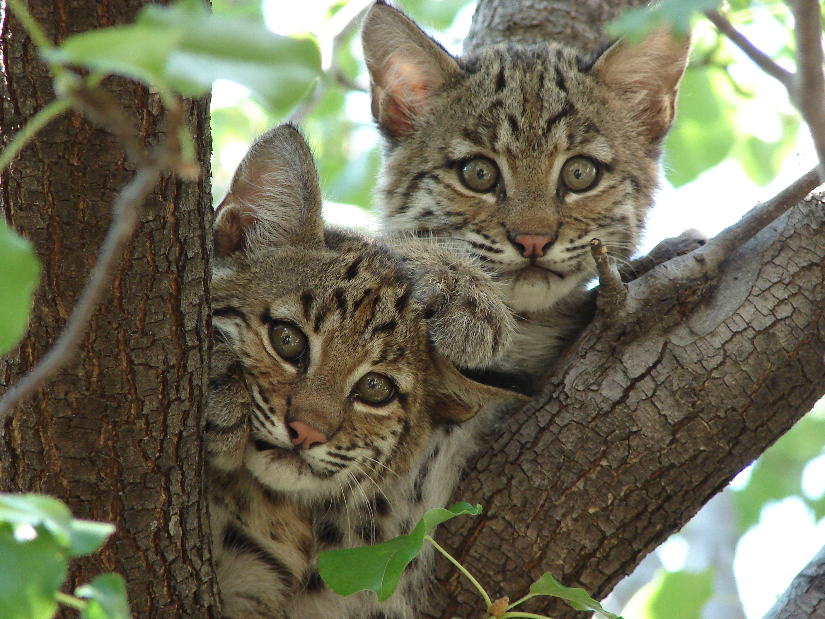 Bobcat kittens (Lynx rufus) in North Texas.